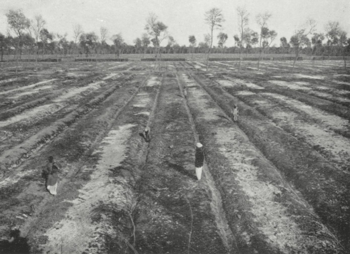 Many of the forests, including Changa Manga were once dry scrubs and thorn forests. They were slashed and burnt to make way for irrigation trenches to be dug. This image shows one such plantation being prepared for cultivation.